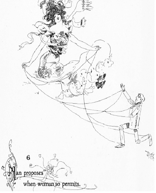 Cartoon twisting the proverb "Man proposes, God disposes"